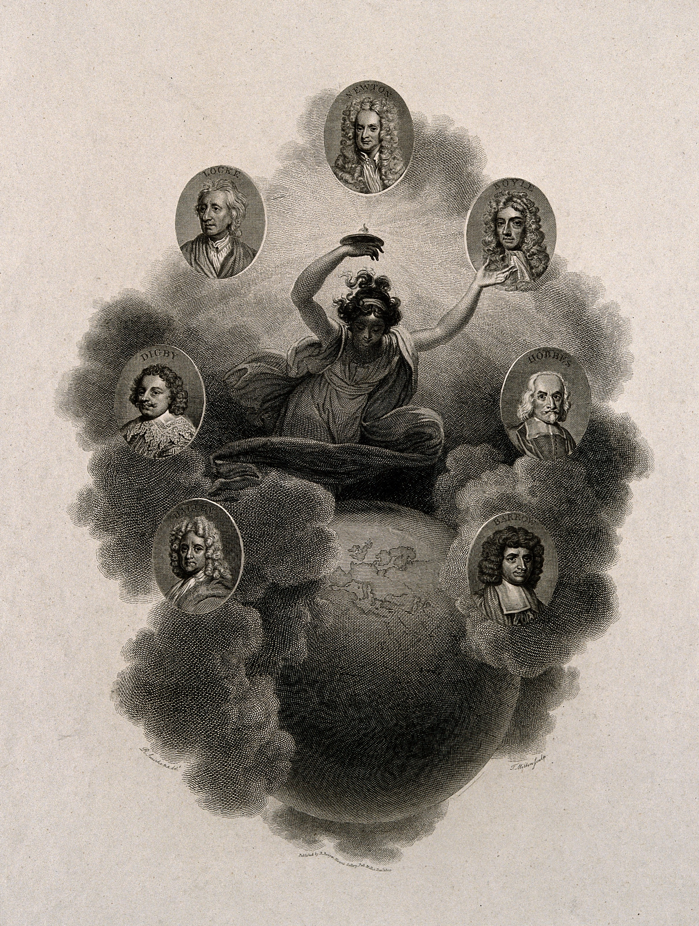 Fame, with a lamp, hovering among clouds over the earth: around her are arranged seven portraits in ovals. Engraving by T. Millow, 1804, after R. Smirke. Iconographic Collections Keywords: Isaac Newton; Robert Boyle; Kenelm Digby; Robert Smirke; Isaac Barrow; John Locke; Thomas Hobbes; Edmond Halley; T. Millow